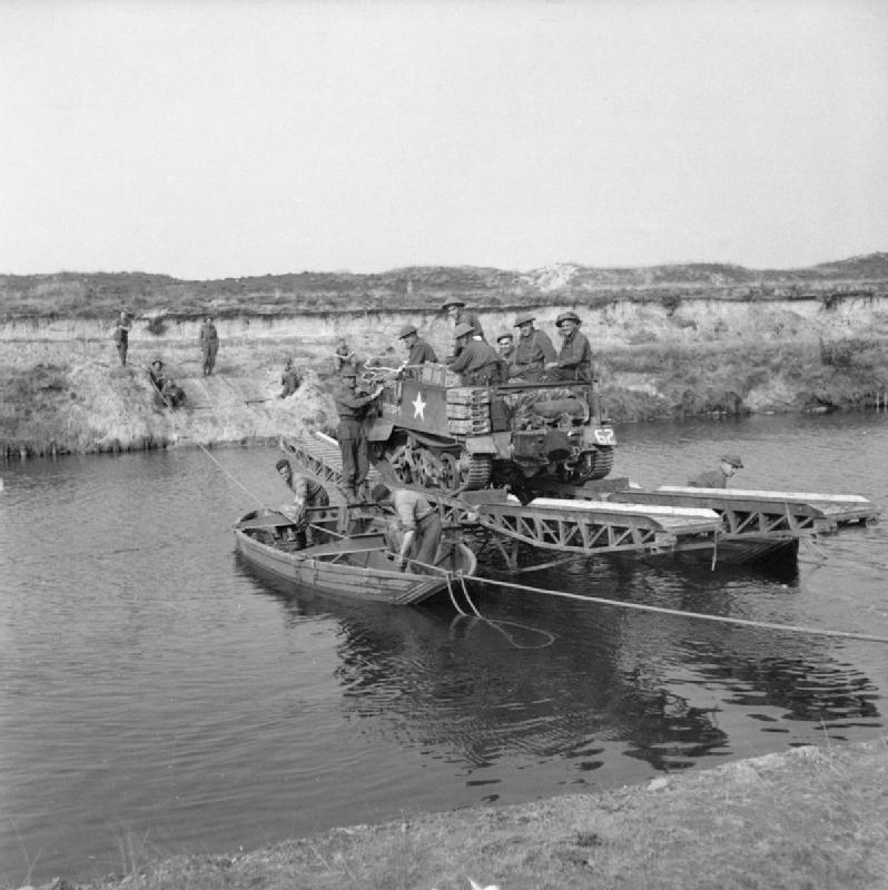 The British Army in North-west Europe 1944-45 A Universal carrier of the 1st East Lancashire Regiment, 53rd Division, being pulled across the Meuse-Escaut (Maas-Schelde) canal on a raft, near Lommel, 19 September 1944.